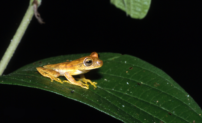 Hypsiboas fasciatus